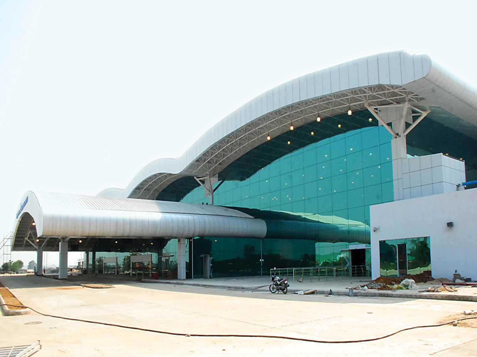 Ranchi airport new international terminal